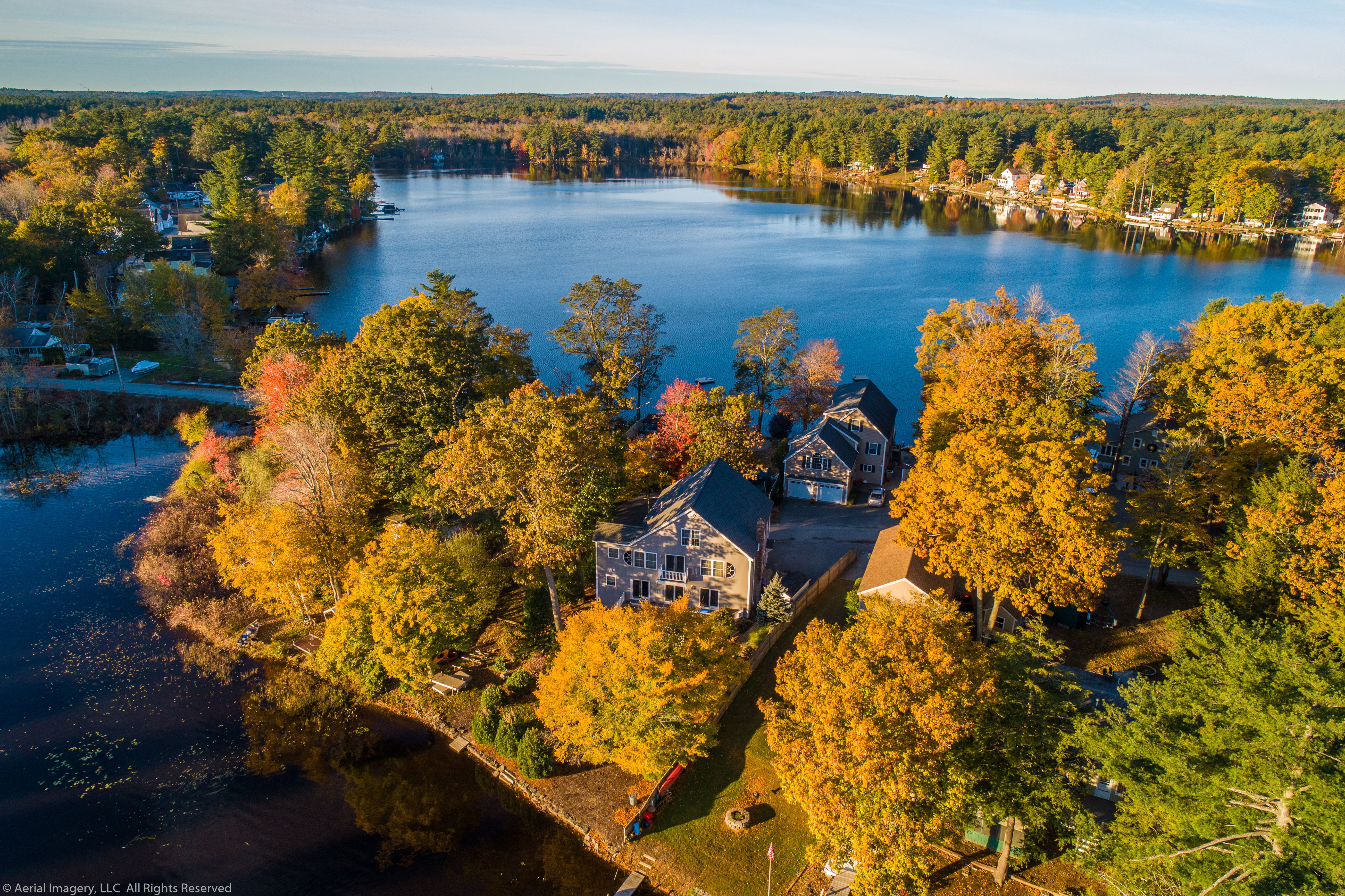 Country Pond Aerial View October 2018 looking over Newton and Kingston NH